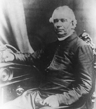 Jean-Baptiste Thibault Online at the Glenbow Archive, NA-826-6